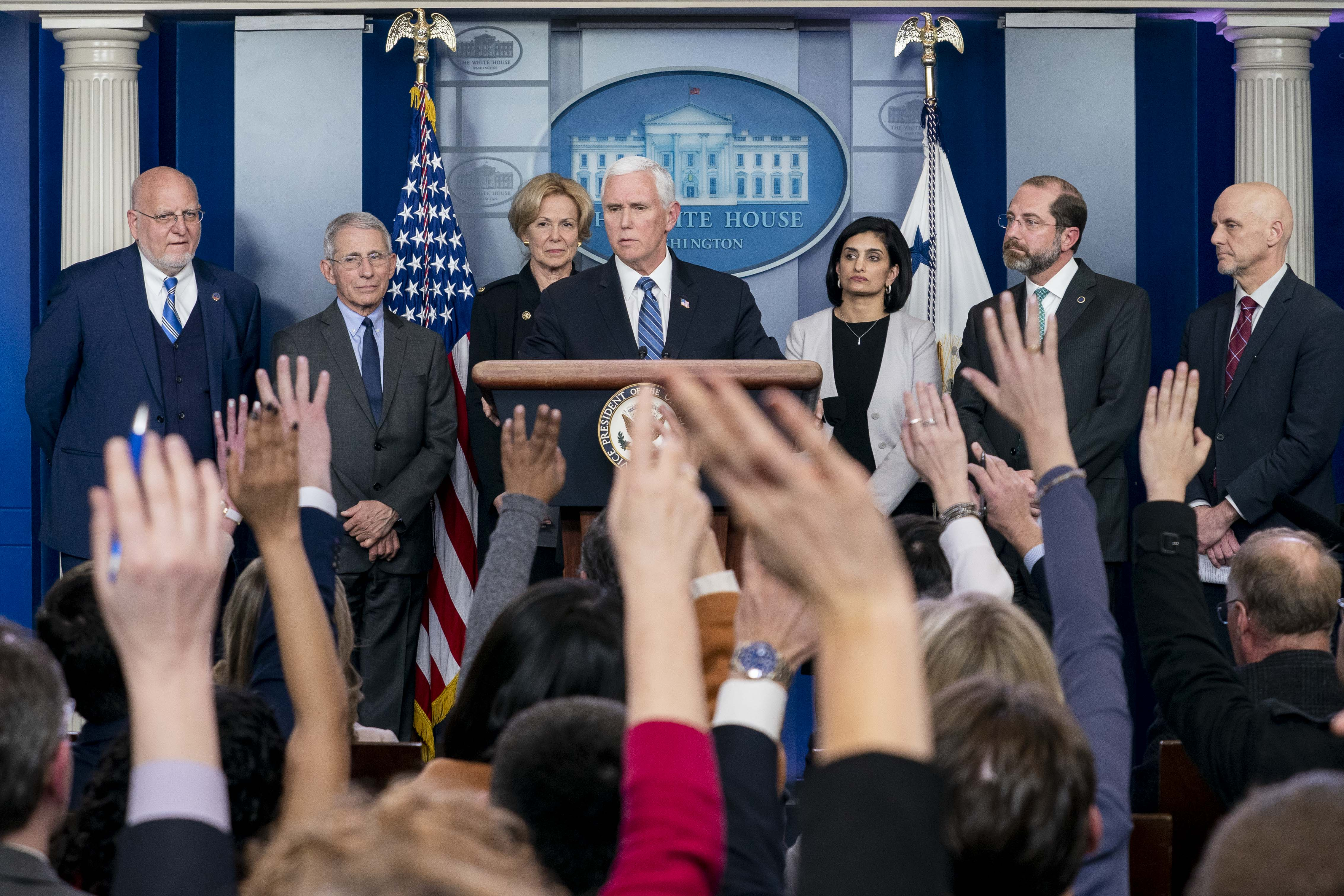 Vice President Mike Pence holds a press conference with Secretary of Health and Human Services Alex Azar and the White House Coronavirus Response Coordinator Dr. Deborah Birx Monday, March 2, 2020, in the White House Press Briefing Room. (Official White House Photo by Andrea Hanks)